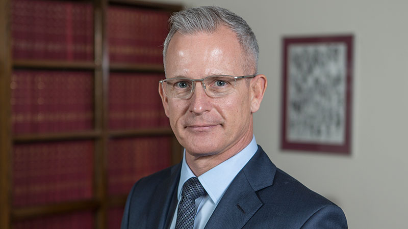 Lord Paddick